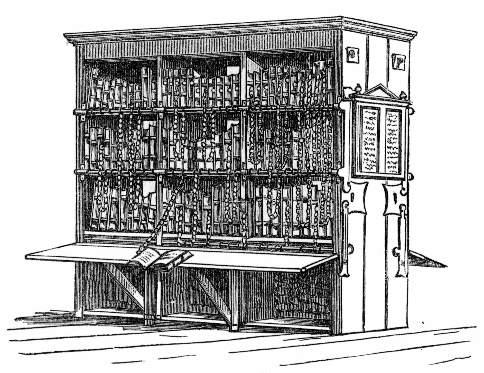 Bookcase from Andrews, William: “Curiosities of the Church: Studies of Curious Customs, Services and Records” (1891)